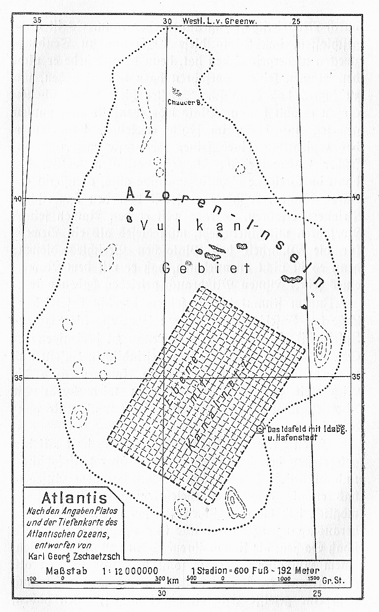 Atlantis - according to Plato's report and a deep sea map of the Atlantic Ocean, drawn by Karl Georg Zschaetzsch